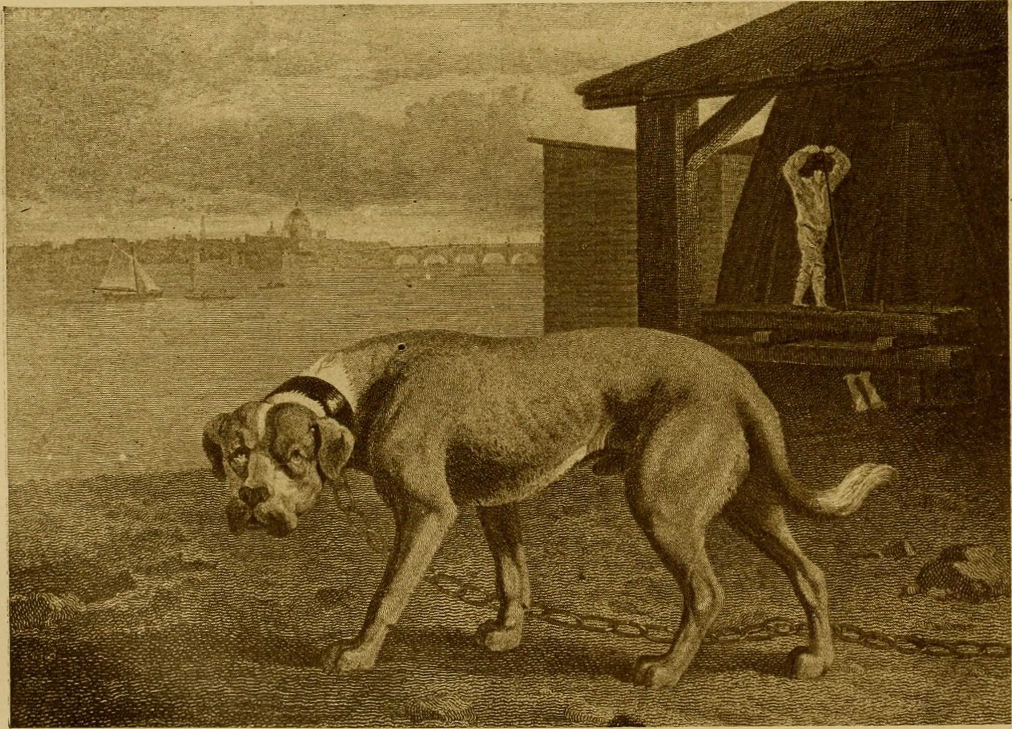 Title: The dog book : a popular history of the dog, with practical information as to care and management of house, kennel, and exhibition dogs; and descriptions of all the important breeds Year: 1906 (1900s) Authors: Watson, James, 1845- Subjects: Dogs Publisher: New York : Doubleday, Page & company Text Appearing After Image: REINAGLES MASTIFF From the "Sportsman's Cabinet," 1S05